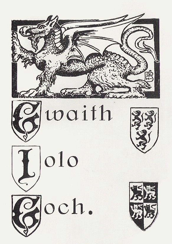 Title page of Gwaith Iolo Goch (Llanuwchllyn, 1915), an edition of the poetry of the medieval Welsh bard Iolo Goch, edited by T. Mathews.